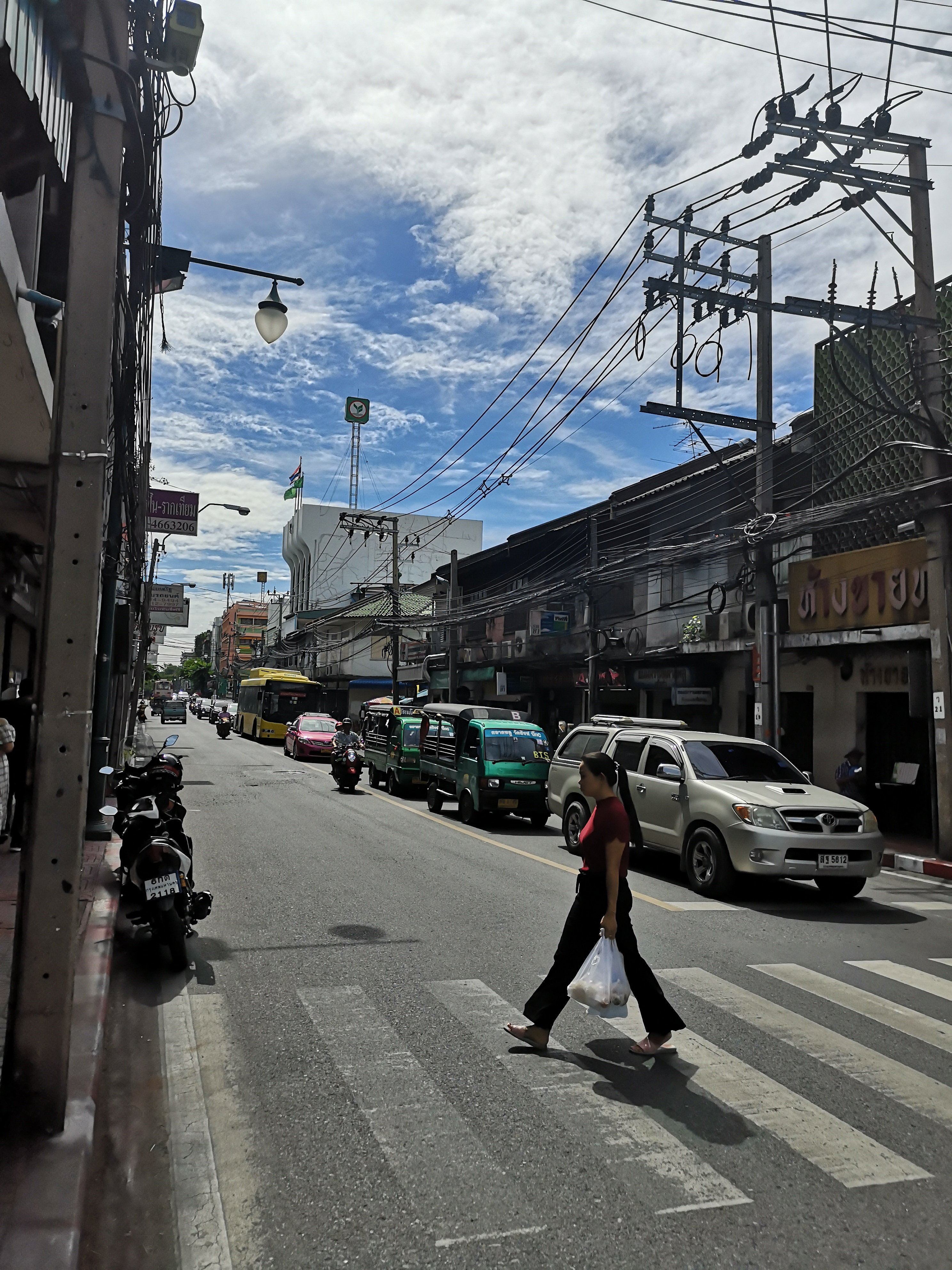 Talad Plu